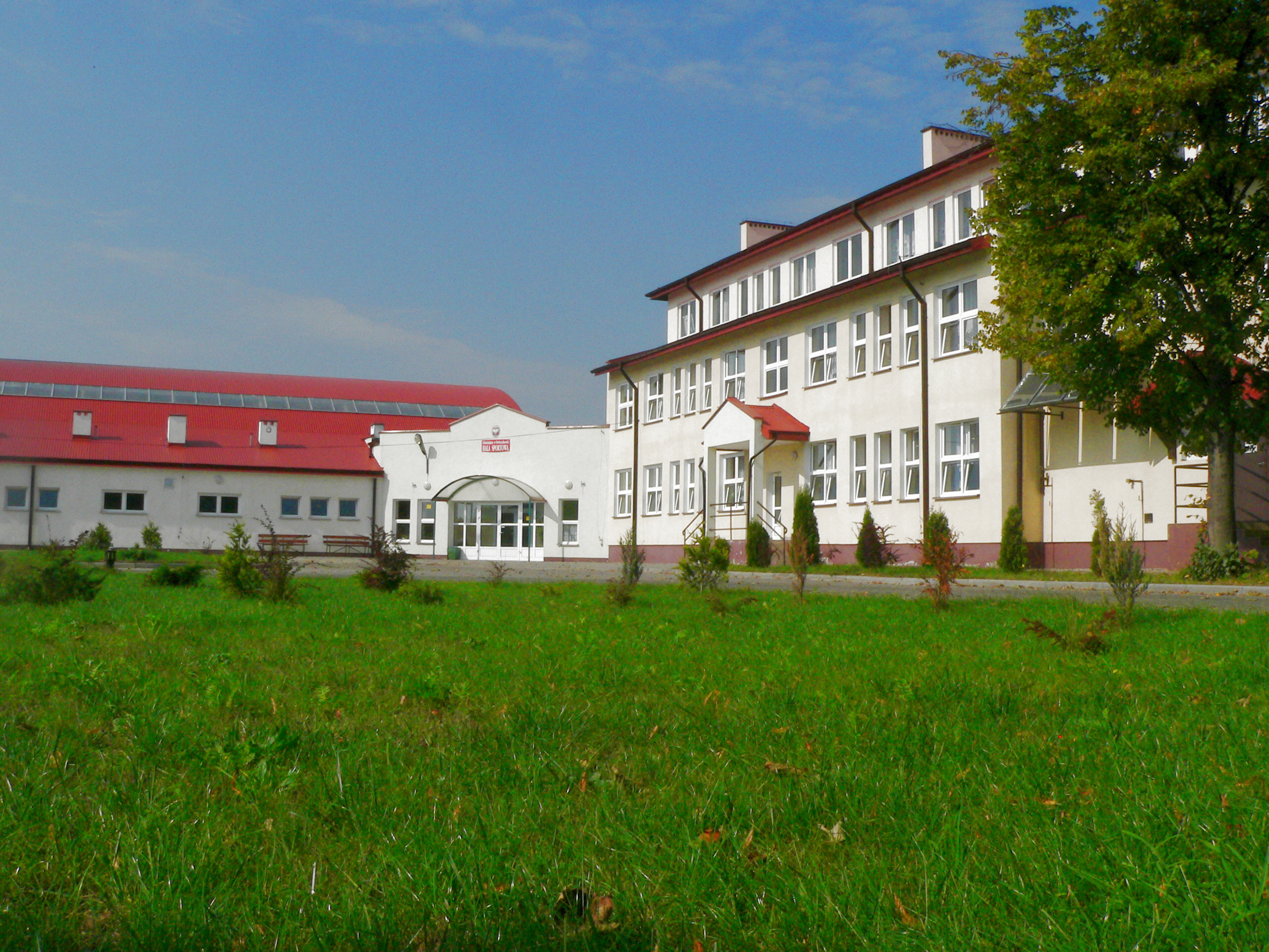 Grammar School in Dobrzyków